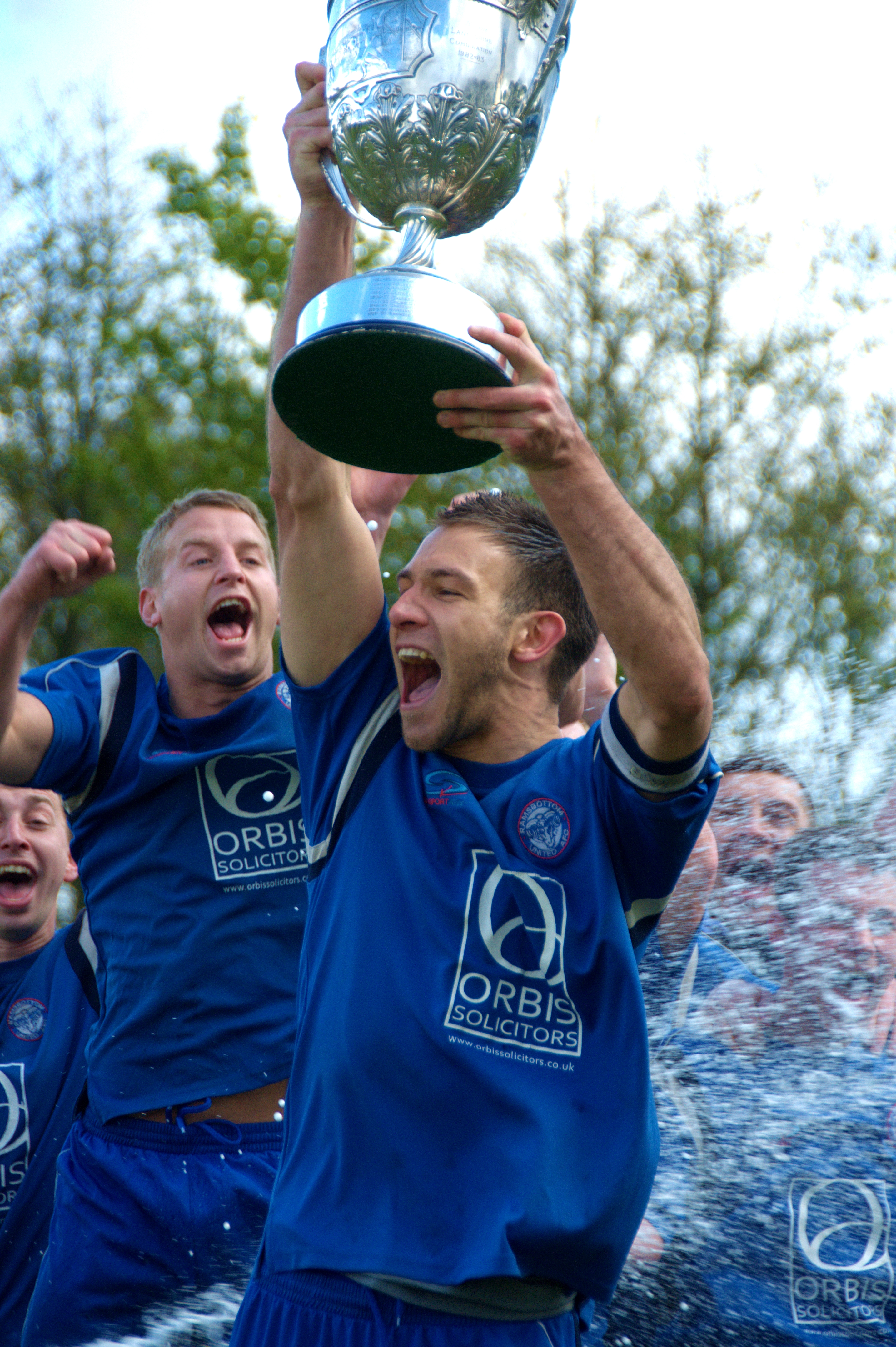 Ramsbottom United Captain Andy Dawson lifts the 2011-2012 Northwest Counties League Premier trophy.